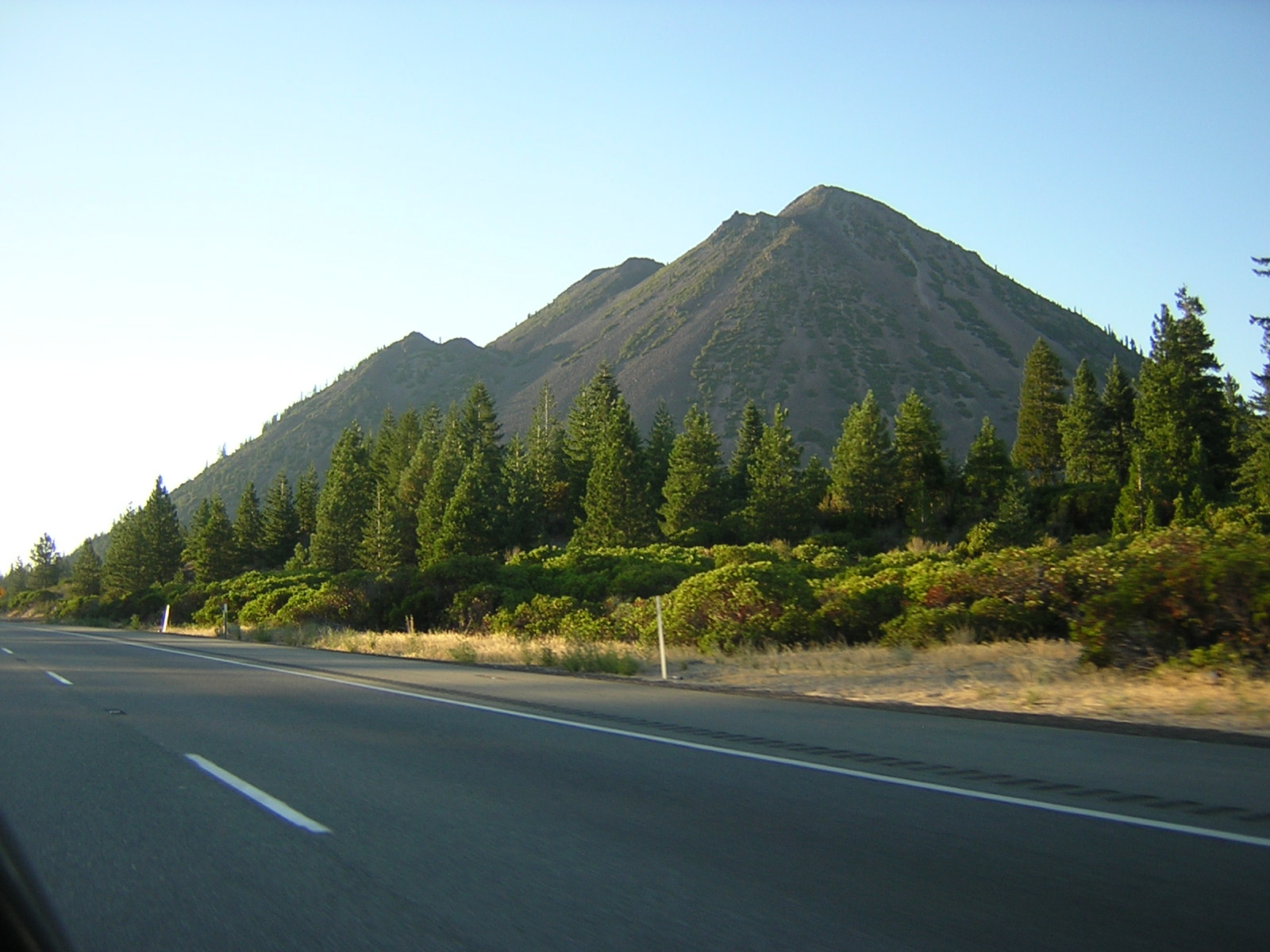 Black Butte on I-5 taken on 8-4-2007